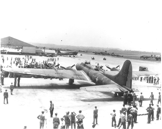 The B-17 Flying Fortress "Memphis Belle" visiting Patterson Field on a War Bond campaign during World War II.